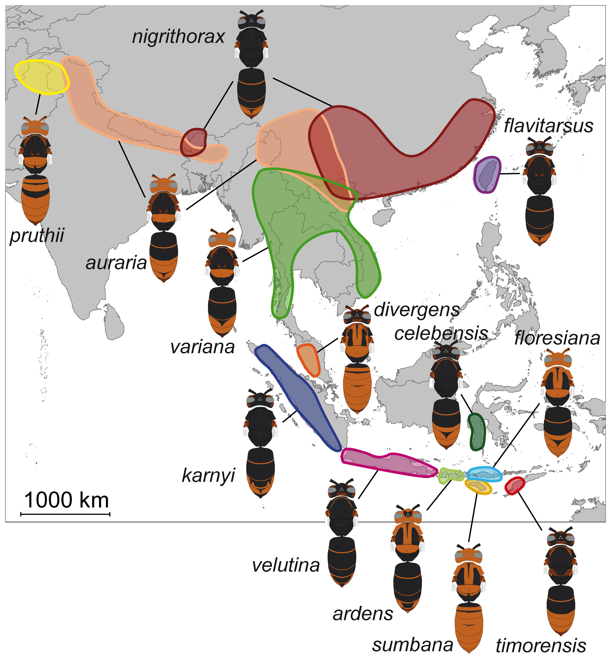 Known distribution of the different colour morphs of Asian predatory wasp (Vespa velutina) across south-east Asia.